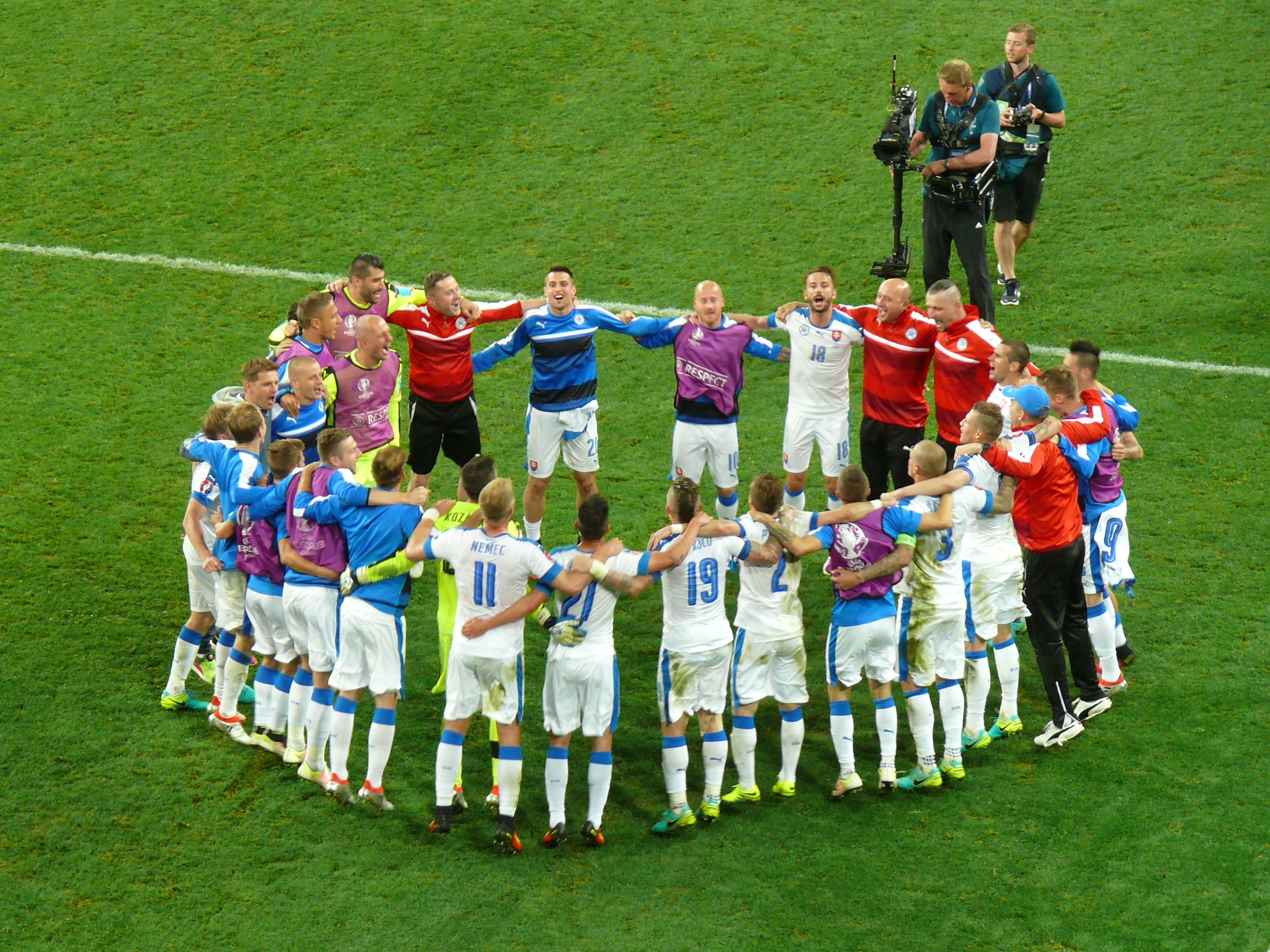 UEFA Euro 2016: Slovak national team celebrating victory over Russia 2:1, Lille, 15.6.2016